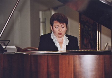 Bella Shteinbuk in performance